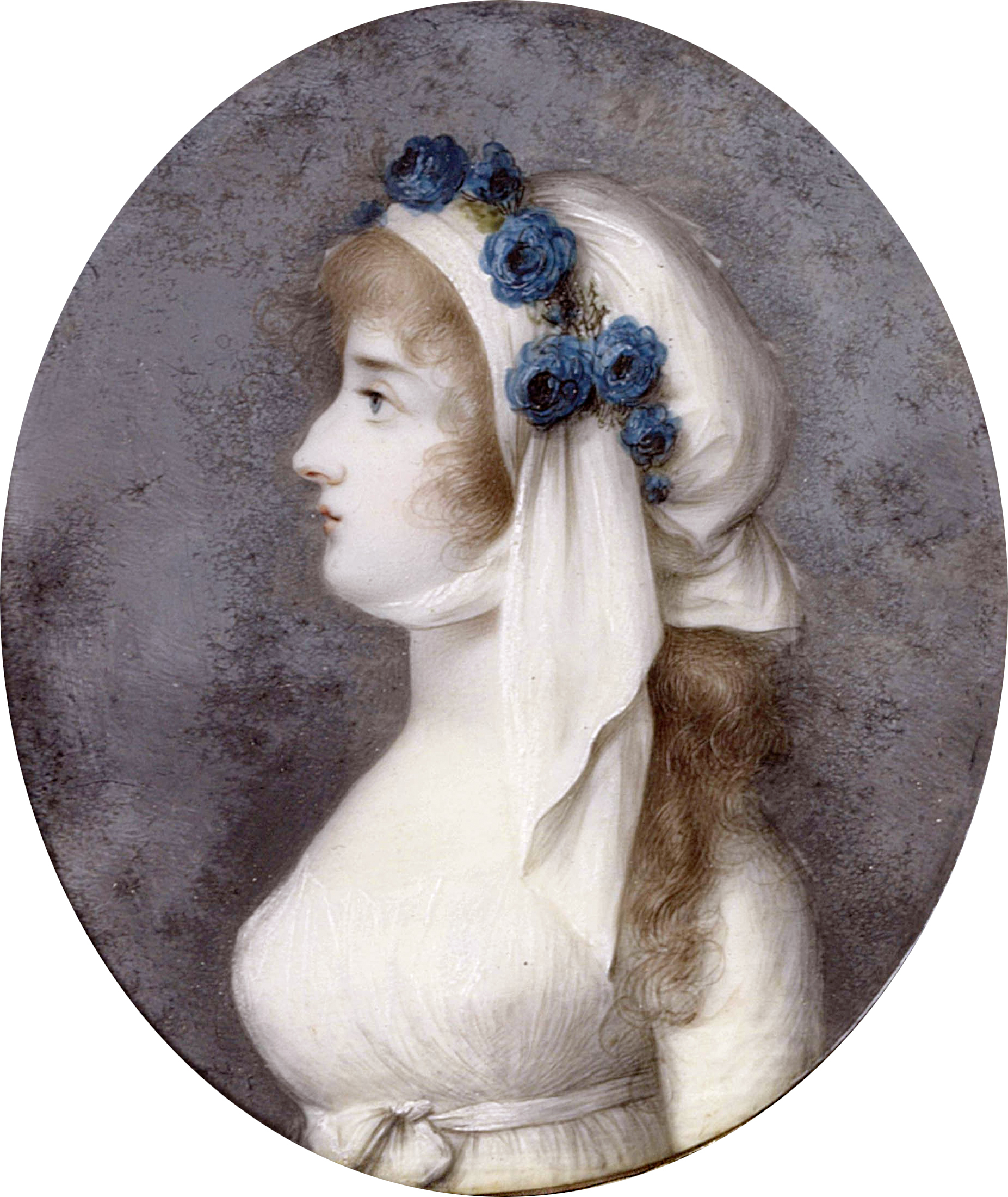 Elizaveta Borissovna Shakhovskaya (1773-1796)